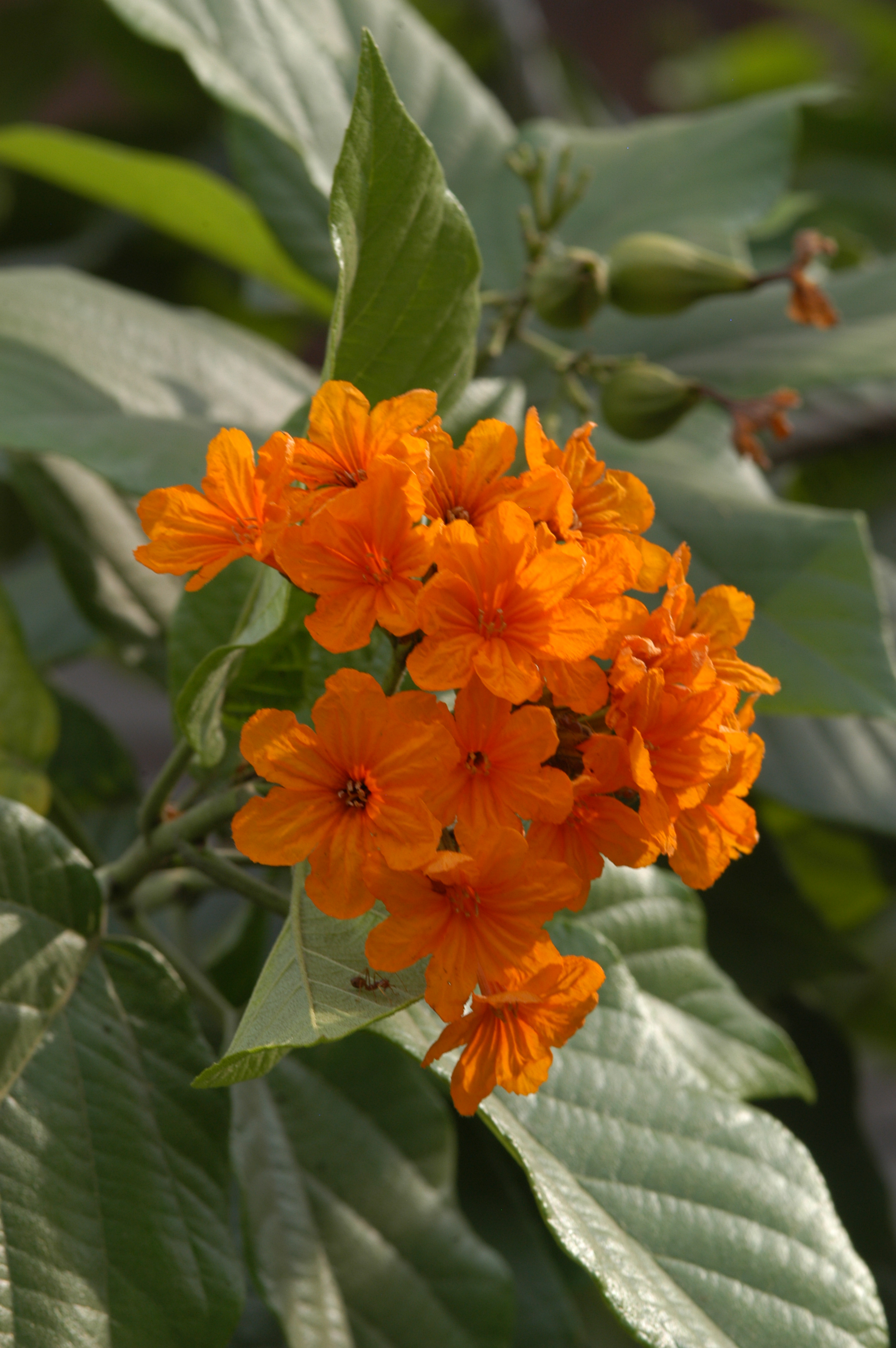 Cordia sebestena